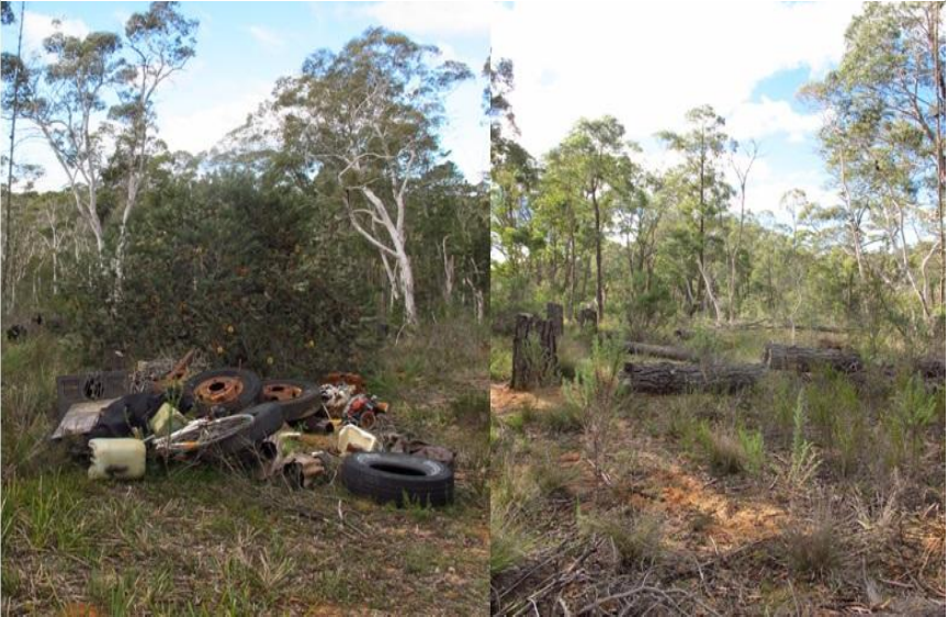 Threats and hazards found within Stingray Swamp Flora Reserve